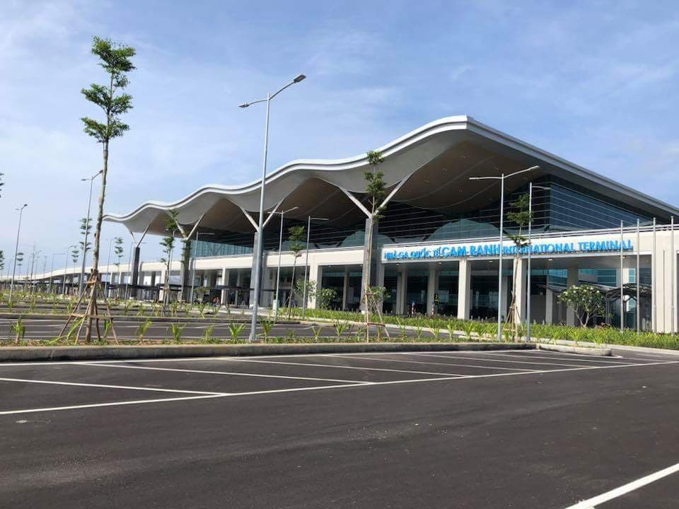 Terminal 2 - Cam Ranh International Airport